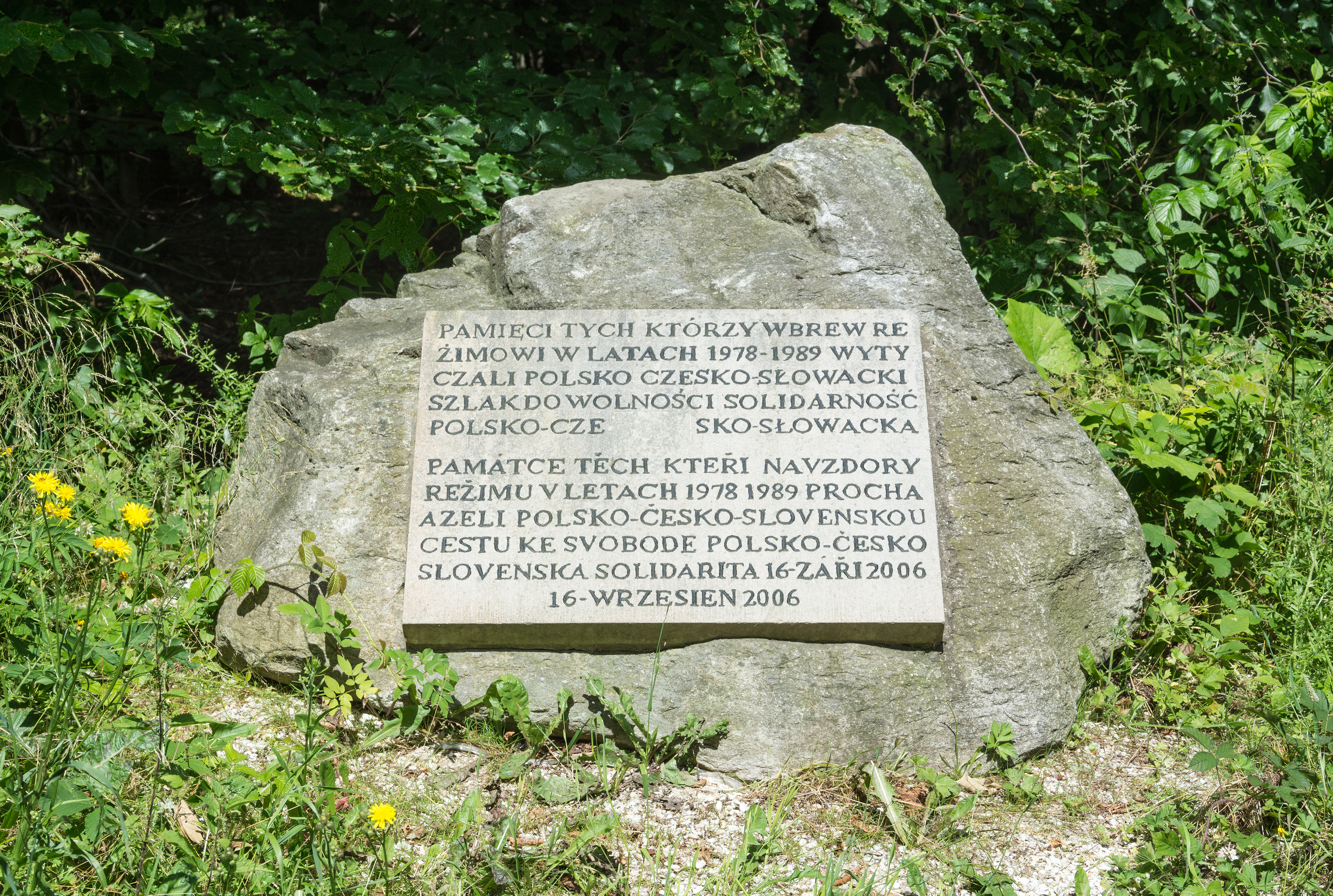 Plaque on Gierałtowska Pass